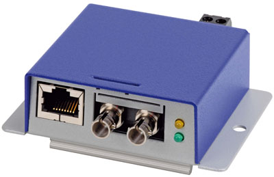 Fiber Optic Mediaconverter